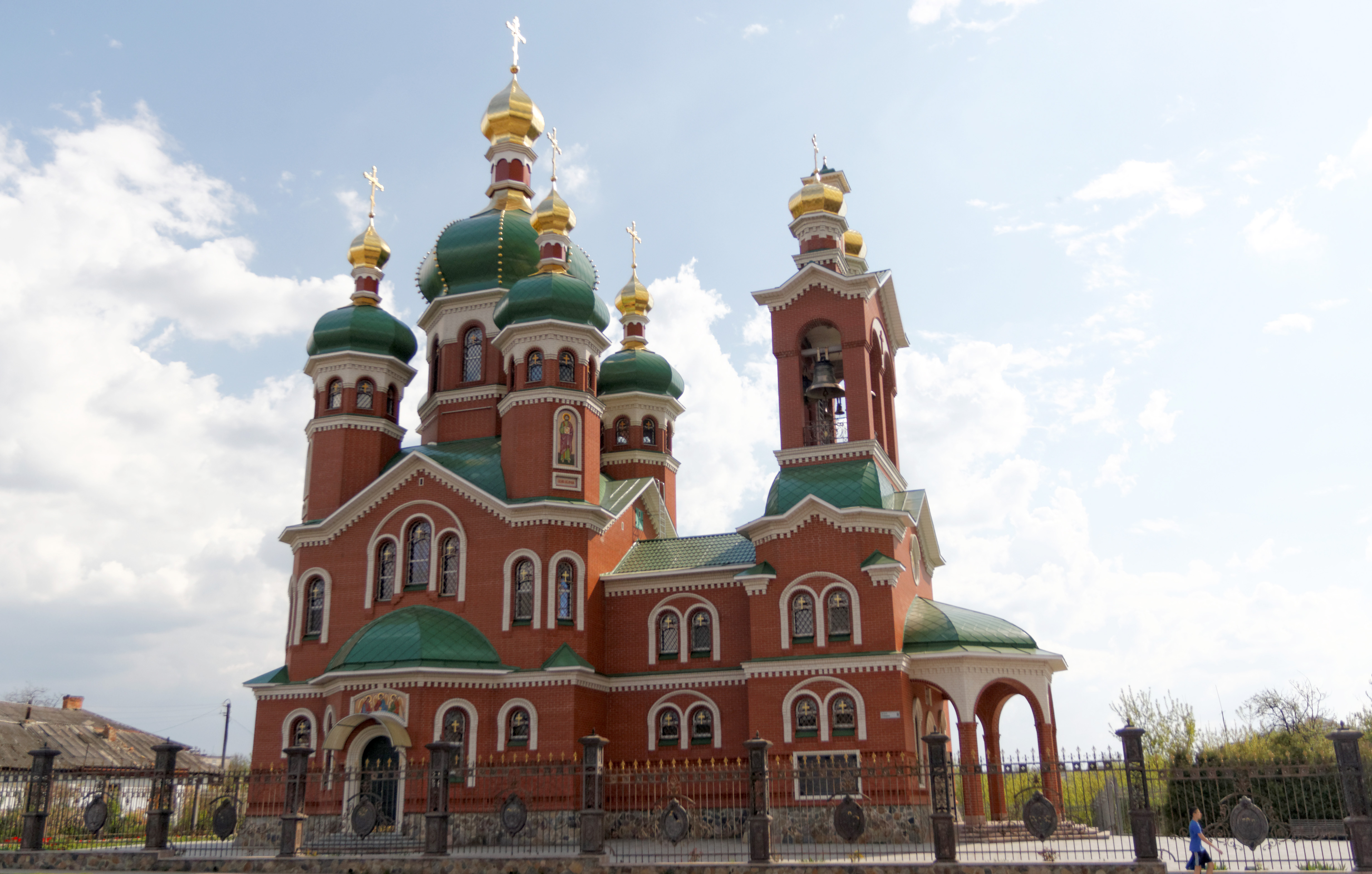 St. Peter and Paul church or Church of the Holy Apostles Peter and Paul - Orthodox church in Talne opened July 4, 2009.